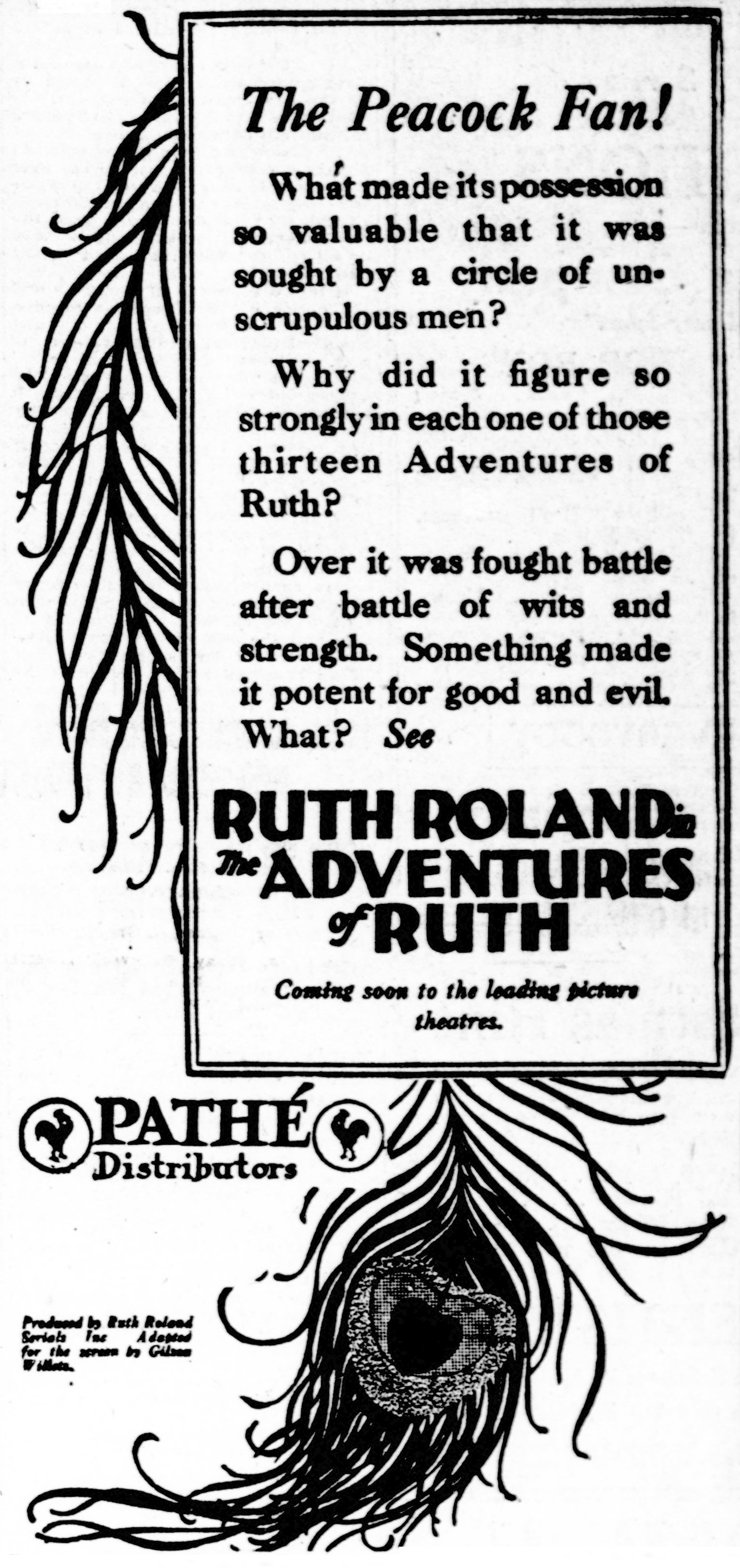 The Adventures of Ruth is a 1919 film serial directed by George Marshall. This is a newspaper advertisement for the film serial.